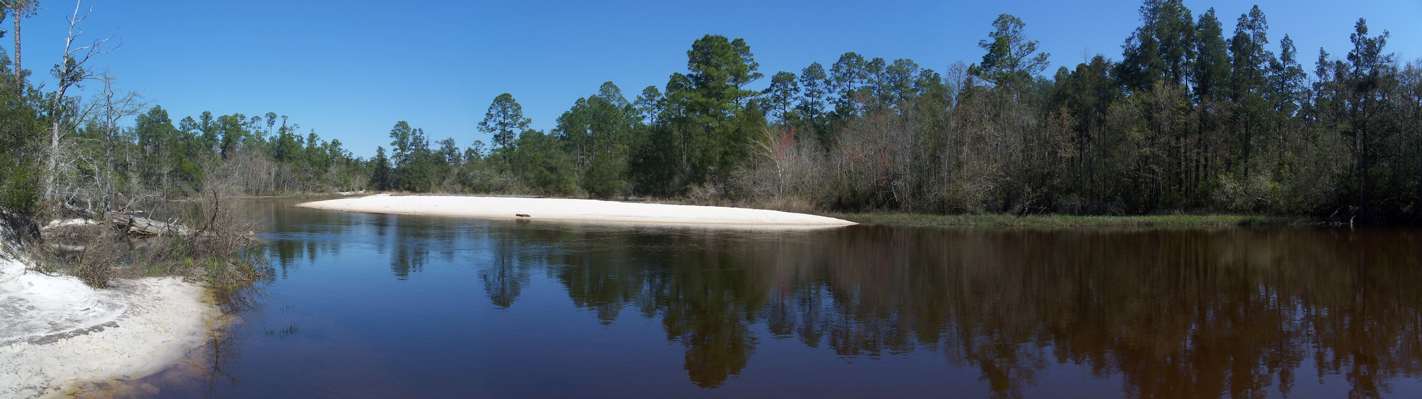 Panorama view of the Blackwater River in Blackwater River State Park.